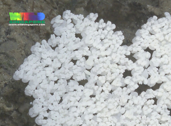 During a bloom of Tape seagrass, tiny male flowers float on the water like bits of styrofoam. When several come near one another, they tend to form rafts by sticking in an orderly manner.